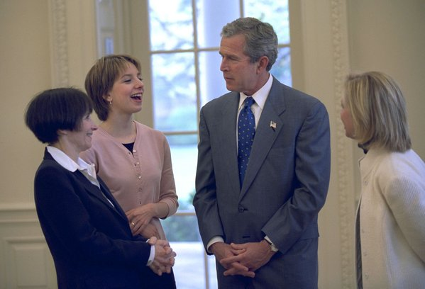 President George W. Bush meets with Sarah Hughes, Olympic gold medalist and figure skater (center, left), her mother, Amy Hughes (far left), and her coach Robin Wagner in the Oval Office